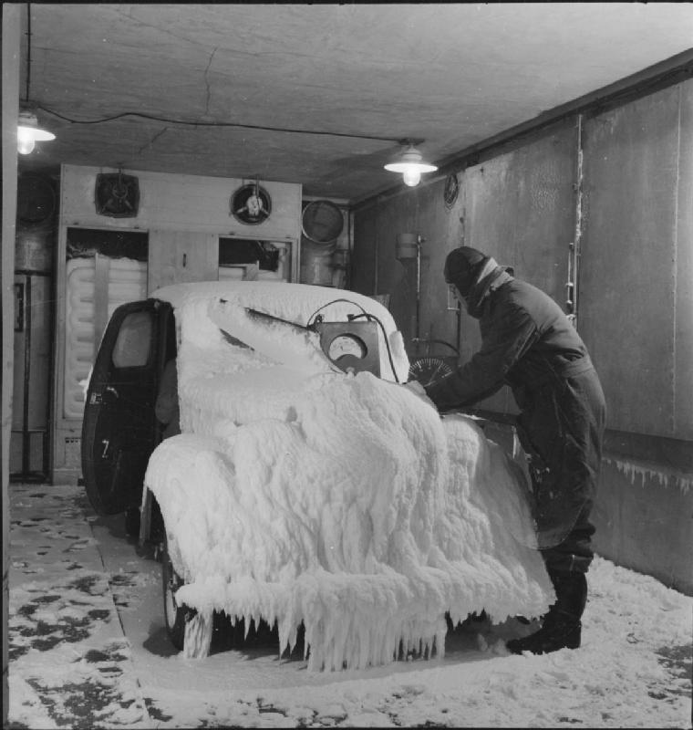 Britain Builds Light Cars- the British Automobile Industry, UK, 1945 A newly-constructed car is tested in the cold room of a car factory, somewhere in Britain. According to the original caption "it has been exposed to sub-zero temperature conditions for three days. Engine startability tests are carried out and observations cover the efficient operation of electrical components and controls". The car has piles of ice all over the bonnet and the scientist carrying out the tests on the car is wearing a jumpsuit to protect him from the cold.